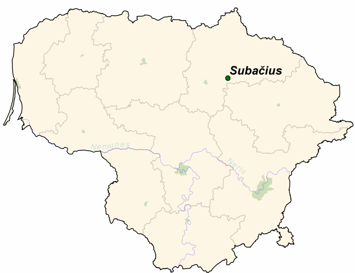 Subačius on the map of Lithuania